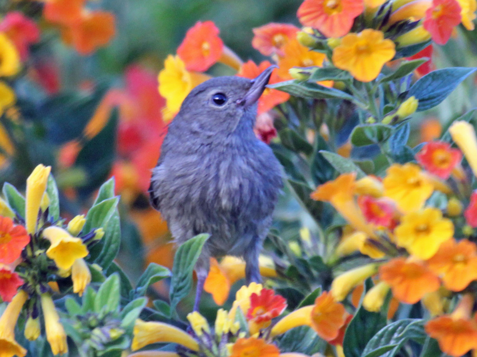 Female Slaty Flowerpiercer (Diglossa cyanea) - Boquette, Panama